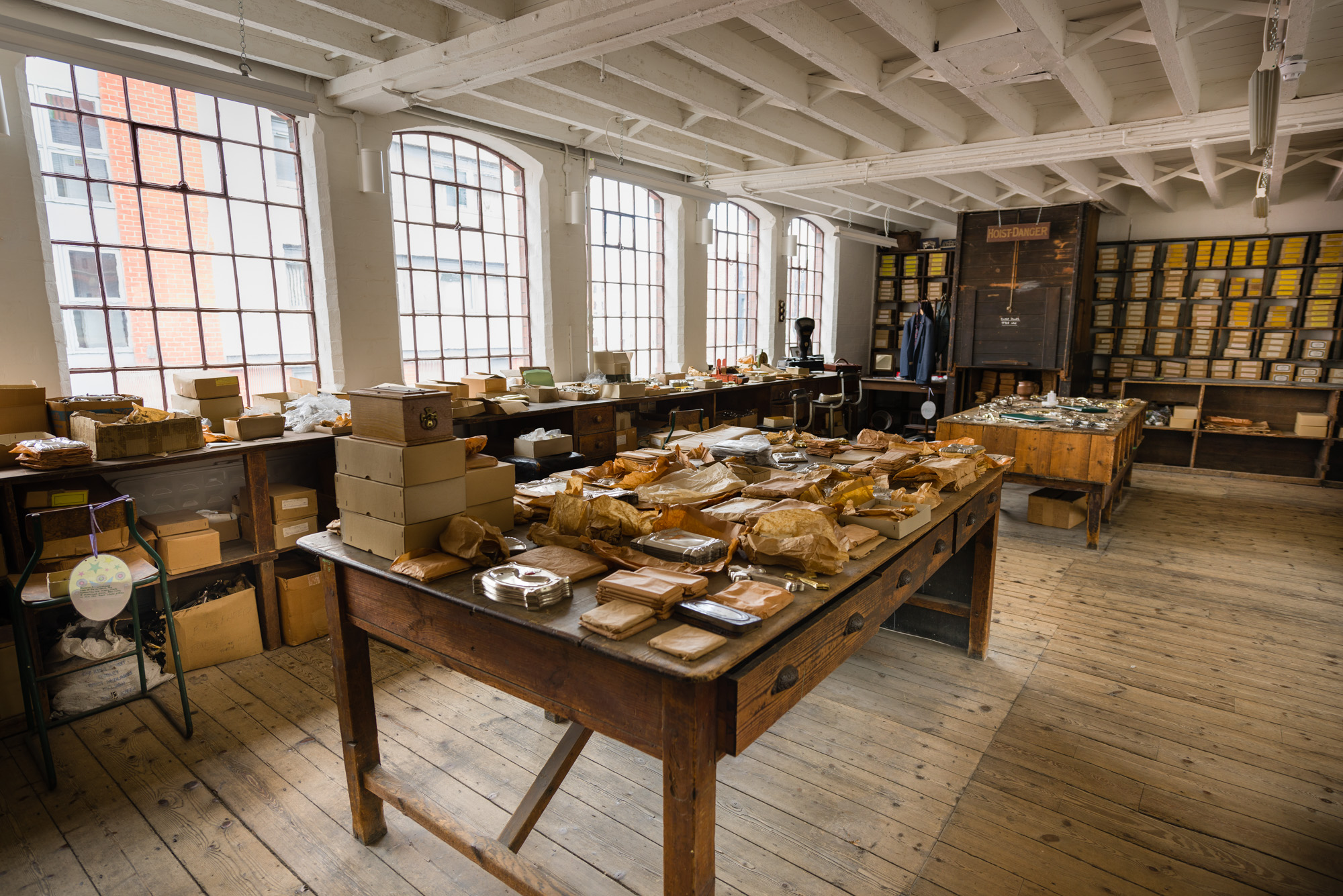 The Newman Brothers' warehouse as it would have looked in the 1960s